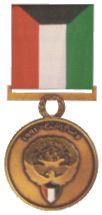 Kuwait Liberation Medal (Kuwait).